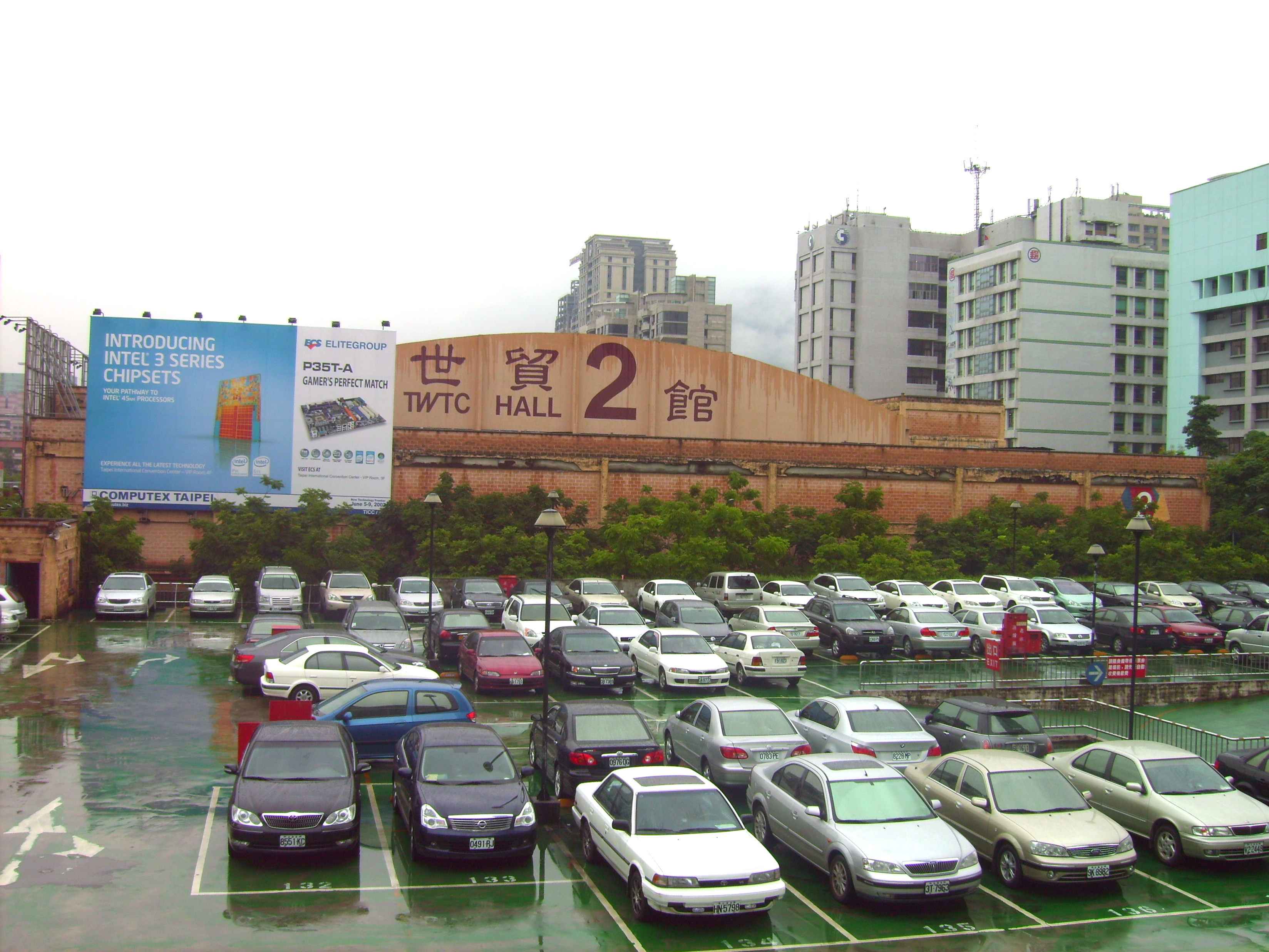 2007 COMPUTEX Taipei: Taipei Show (Hall 2) 2F Parking Lot.